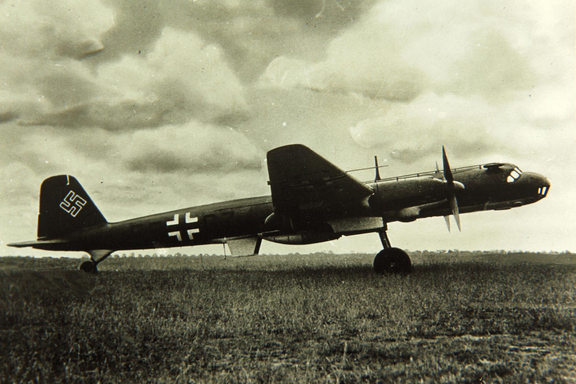 Photo of Henschel HS 130